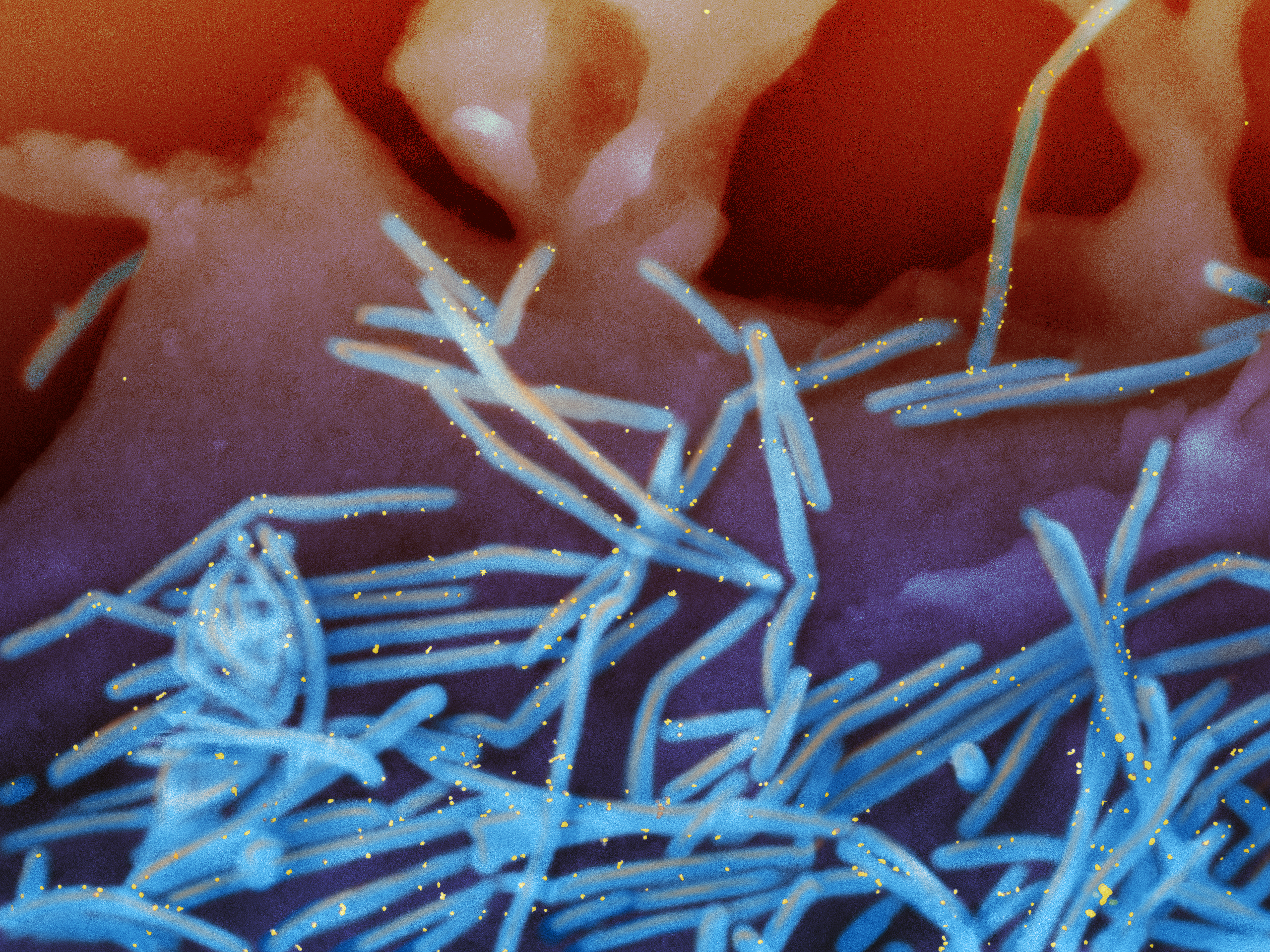 Scanning electron micrograph of human respiratory syncytial virus (RSV) virions (colorized blue) and labeled with anti-RSV F protein/gold antibodies (colorized yellow) shedding from the surface of human lung epithelial A549 cells. Credit: NIAID